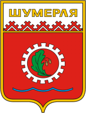 Shumerlya (Chuvashia), coat of arms (1976)